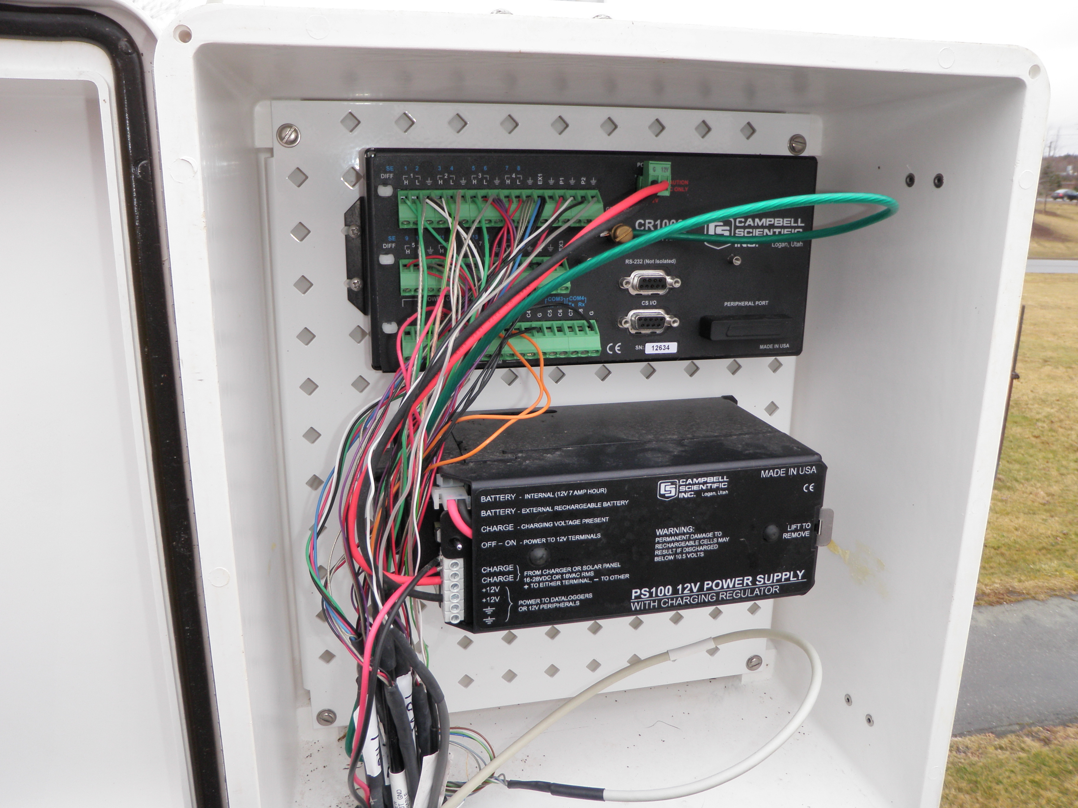 Data compiler for the St.Fx weather station